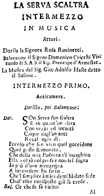 Hasse - La serva scaltra - first page of the libretto - Venice 1732